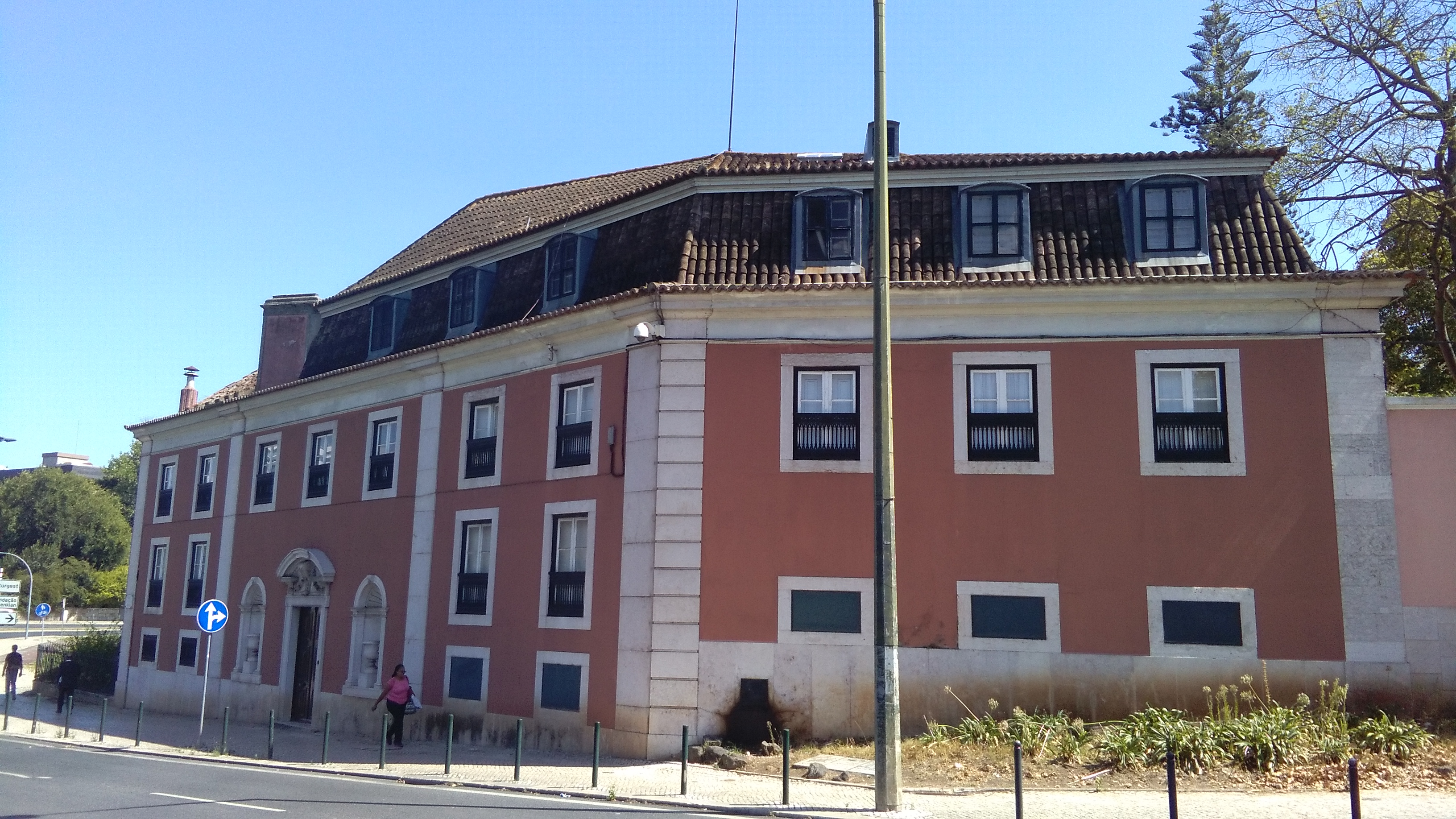 View of the Palhavã Palace, the building now houses the Spanish embassy in Lisbon, Portugal.